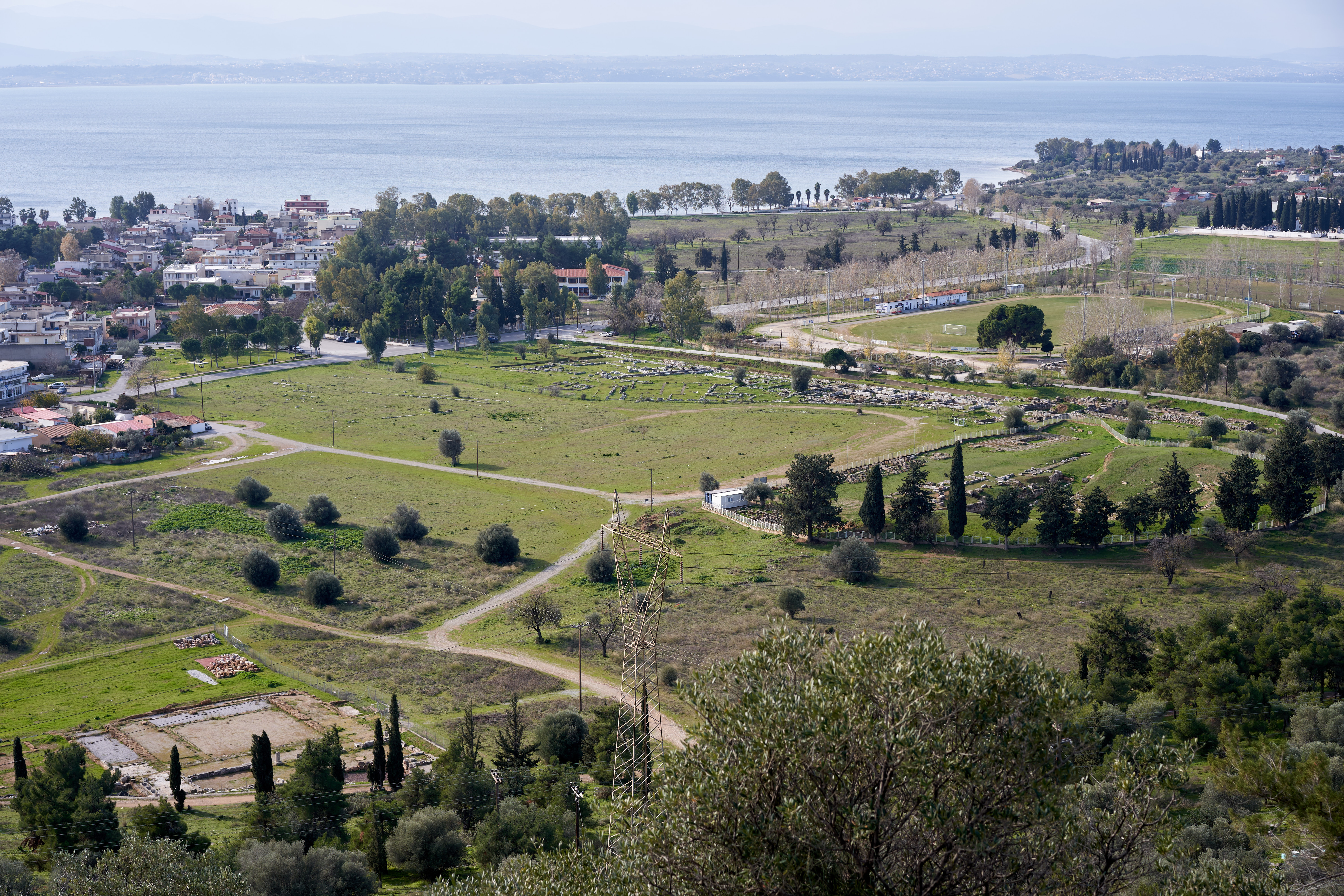 The Theatre of Eretria and the Gymnasium from the Acropolis on January 16, 2020.